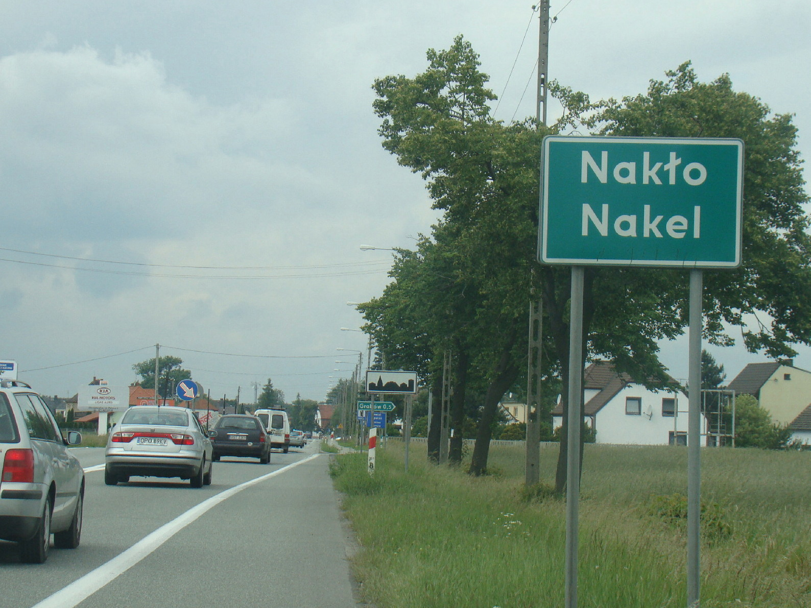 Village Nakło (województwo opolskie)